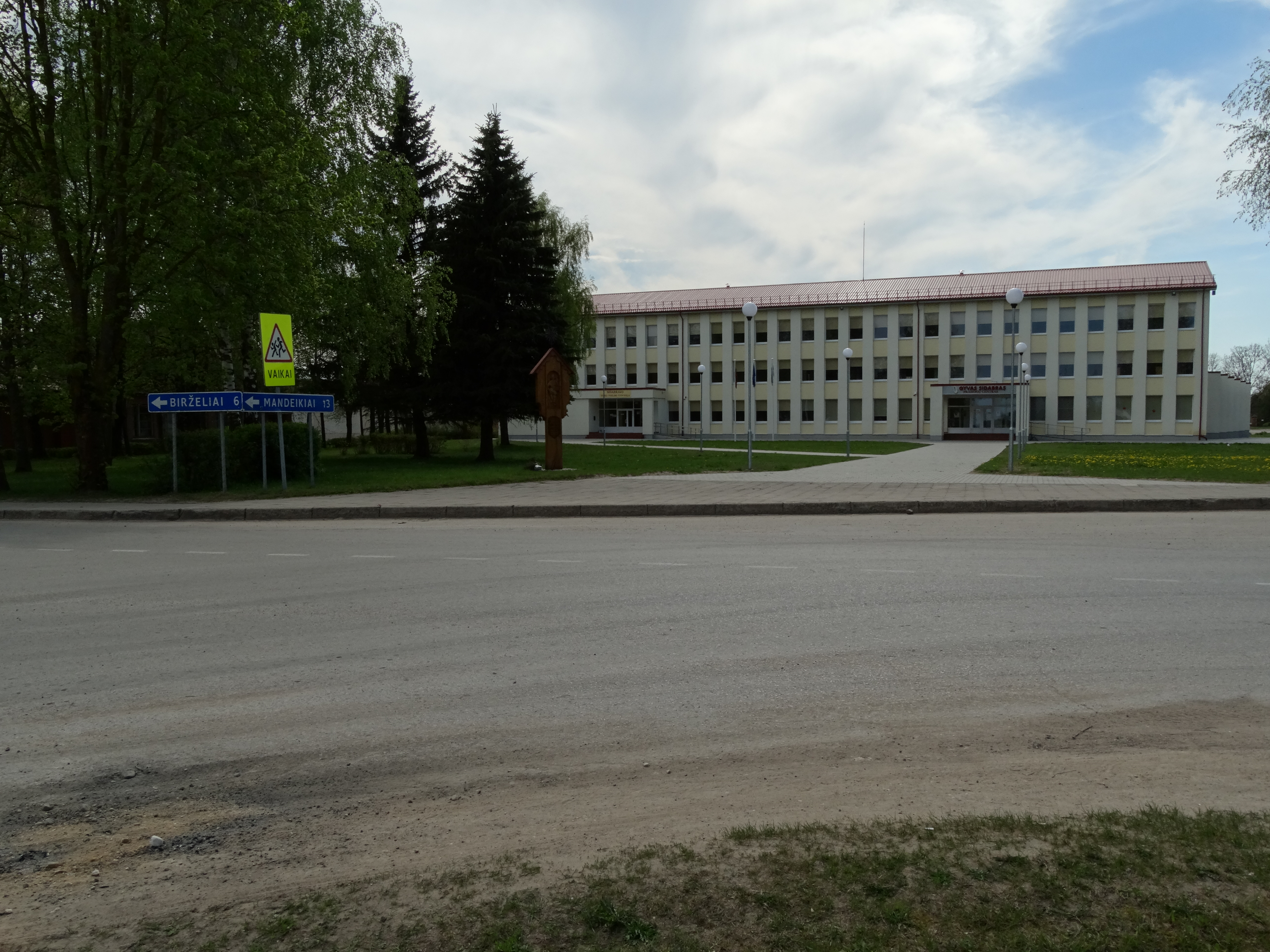 Sidabravas, Radviliškis District, Lithuania